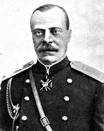 Oldenburgsky, Prince Alexander Petrovich (1844-1932).